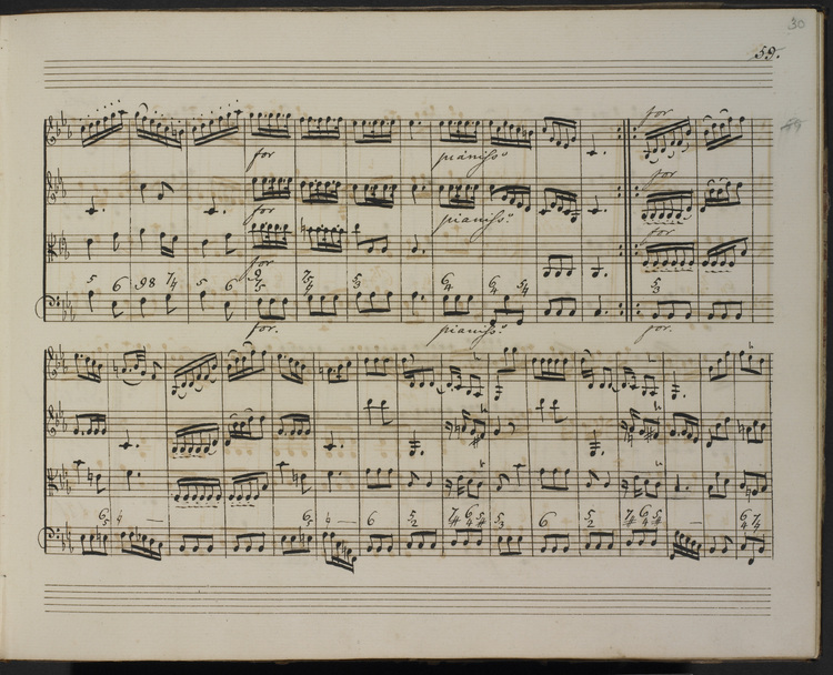 A handwritten page [folio 30r] from BL Add MS 49626, Symphony no. 15 in E flat major by William Herschel, in the composer's own hand. Held and digitised by the British Library.